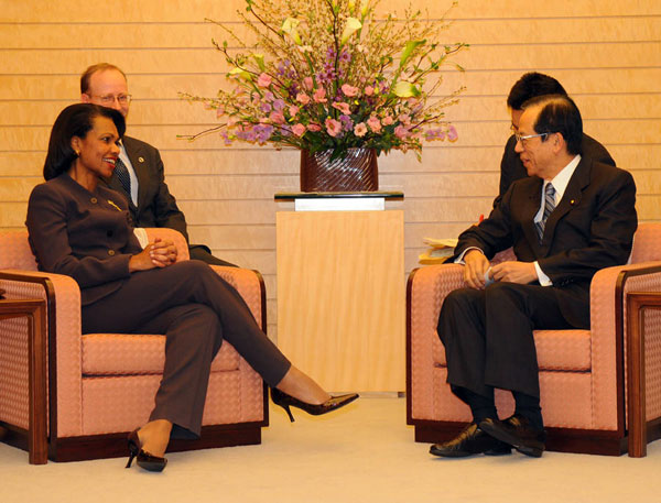 Secretary of State Condoleezza Rice met Prime Minister Yasuo Fukuda at the Kantei on February 27, 2008.